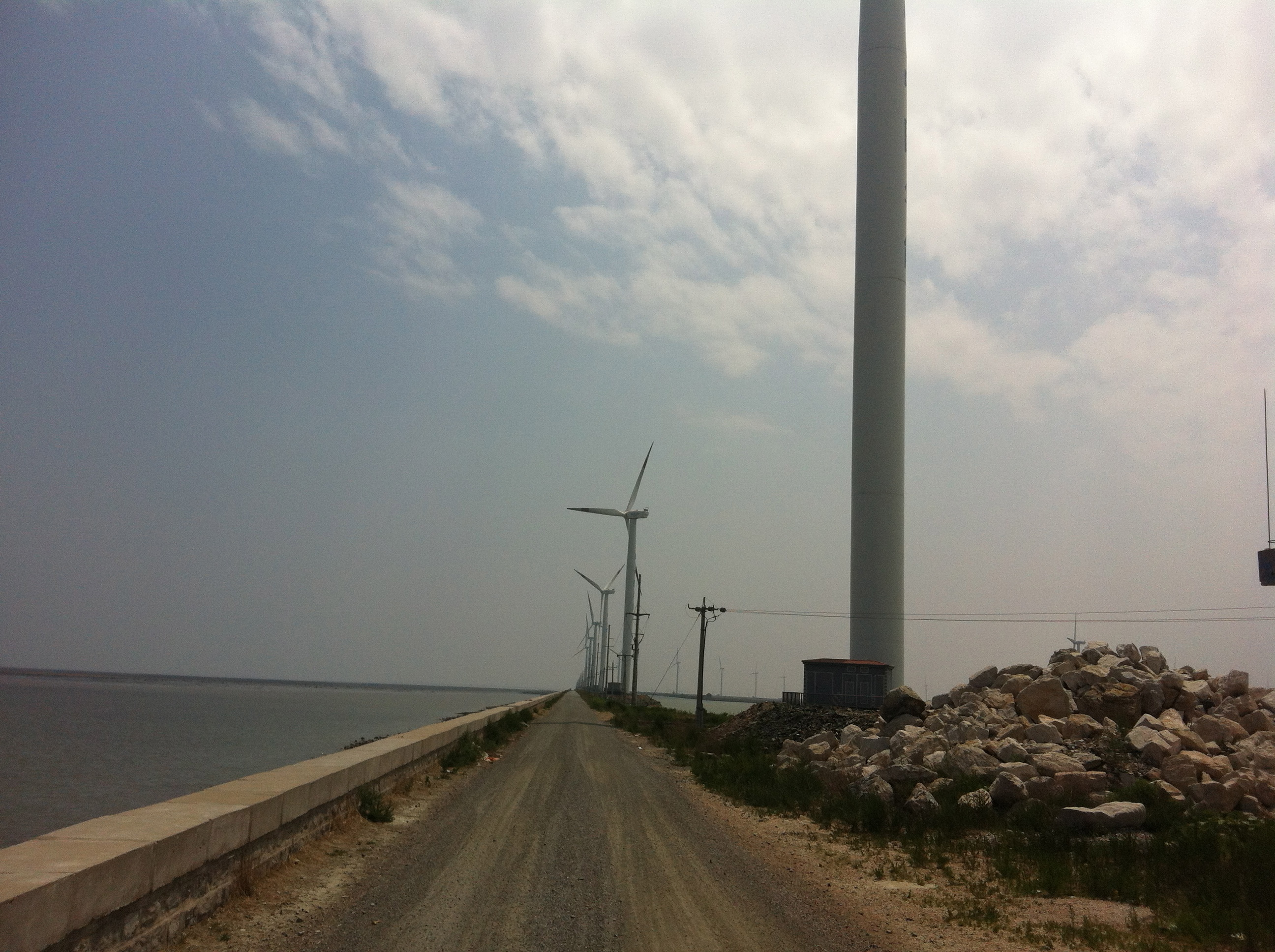 This is a picture taken of the Changyi city coastline along the Bohai Sea that captures the development of clean wind energy along the coast. Other information taken with an iPhone 4 when I visited the city to research the development of an environmental protection program and clean energy there.